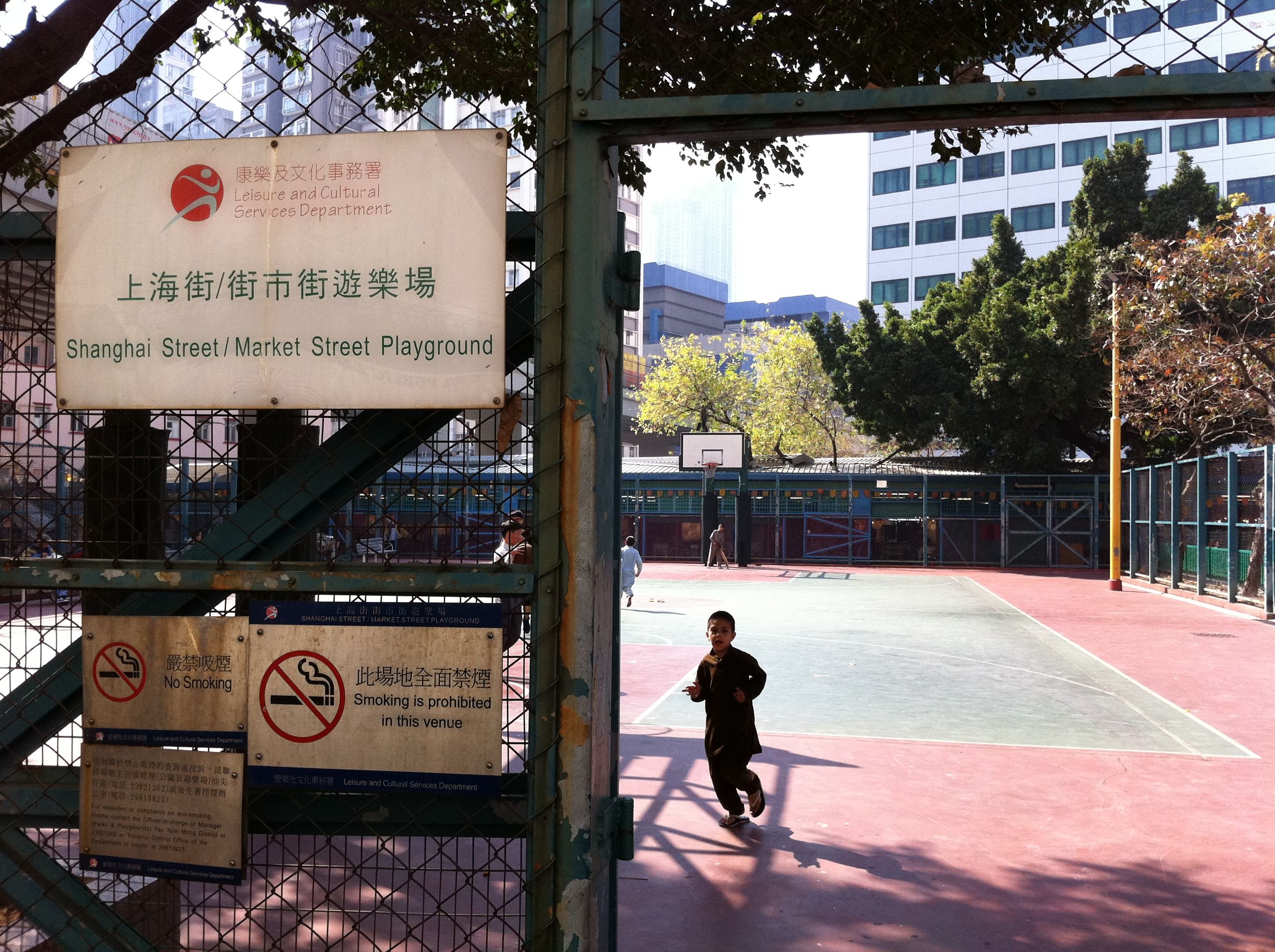 油麻地上海街/街市街遊樂場, Shanghai Street/Market Street Playground, Yau Ma Tei, Hong Kong